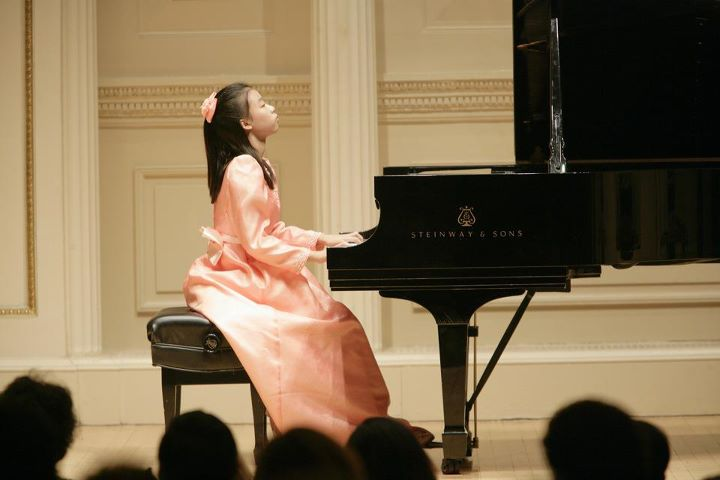 Szuyu Su performing in Carnegie Hall